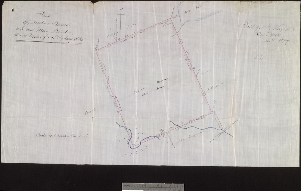 Caribou Marsh Reserve no. 29. Plan of Indian Reserve near new Mira Road seven miles from Sydney C.B. [cartographic material] Map from: RG10 Vol. 2072 File 10669 Cartographic Scale 1:7 920.